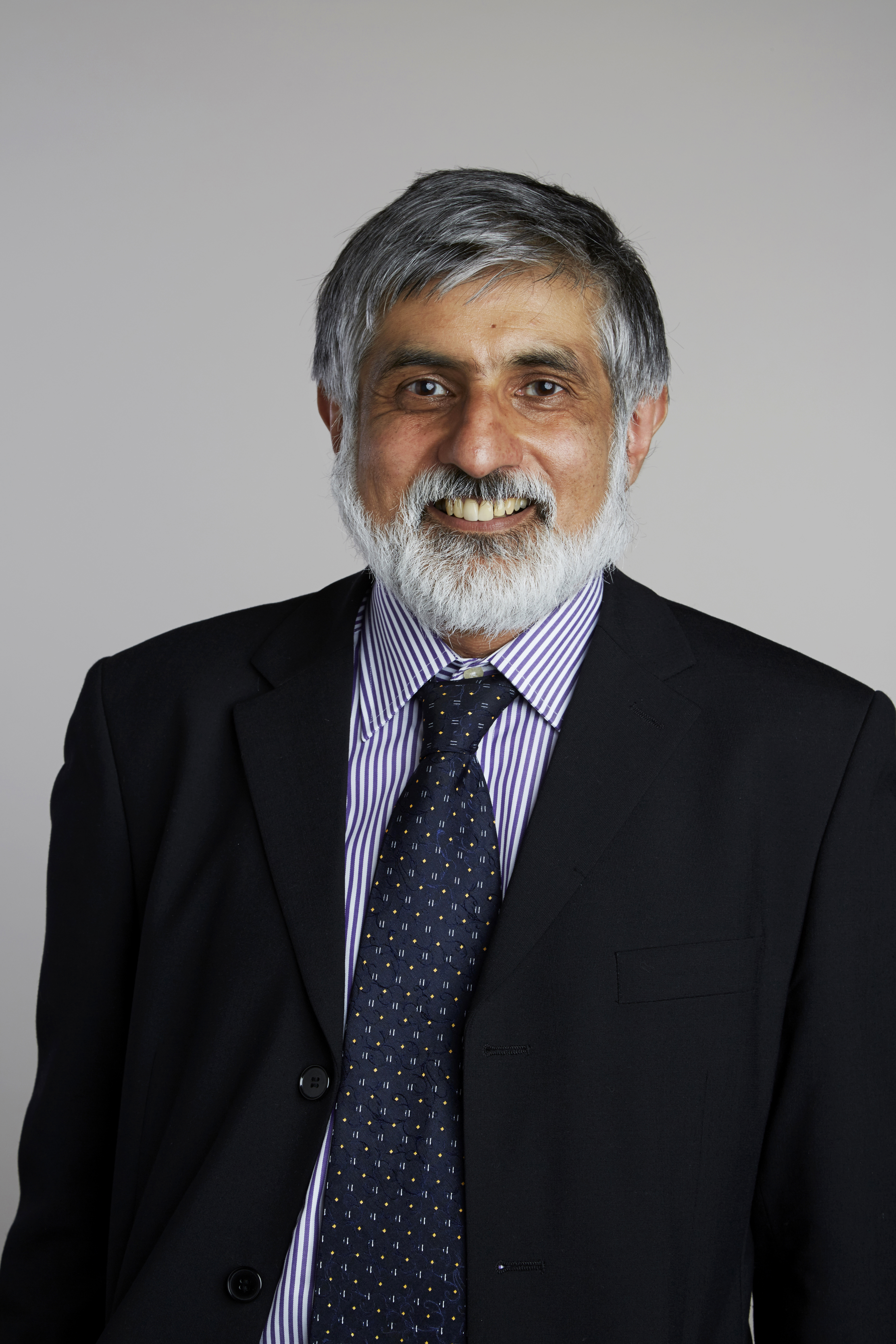 Philip Maini graduated in mathematics from the University of Oxford, and completed his DPhil under the supervision of James Murray. After various research and teaching positions at Oxford and the University of Utah, he became Director of the Wolfson Centre for Mathematical Biology in 1998, then Statutory Professor in Mathematical Biology and Professorial Fellow of St John’s College, Oxford in 2005. He was an elected member of the Boards of the Society for Mathematical Biology and the European Society for Mathematical and Theoretical Biology. He is Fellow of the Institute of Mathematics and its Applications, the Society for Industrial and Applied Mathematics, and the Society of Biology, and is a Corresponding Member of the Mexican Academy of Sciences. He has held visiting positions at universities worldwide. Philip’s research includes mathematical modelling of tumours, wound healing and embryonic pattern formation, and the theoretical analysis of these models. He co-authored a 1997 Bellman Prize-winning paper and received a Royal Society Leverhulme Trust Senior Research Fellowship and Wolfson Research Merit Award, and the London Mathematical Society Naylor Prize. Attribution: The Royal Society